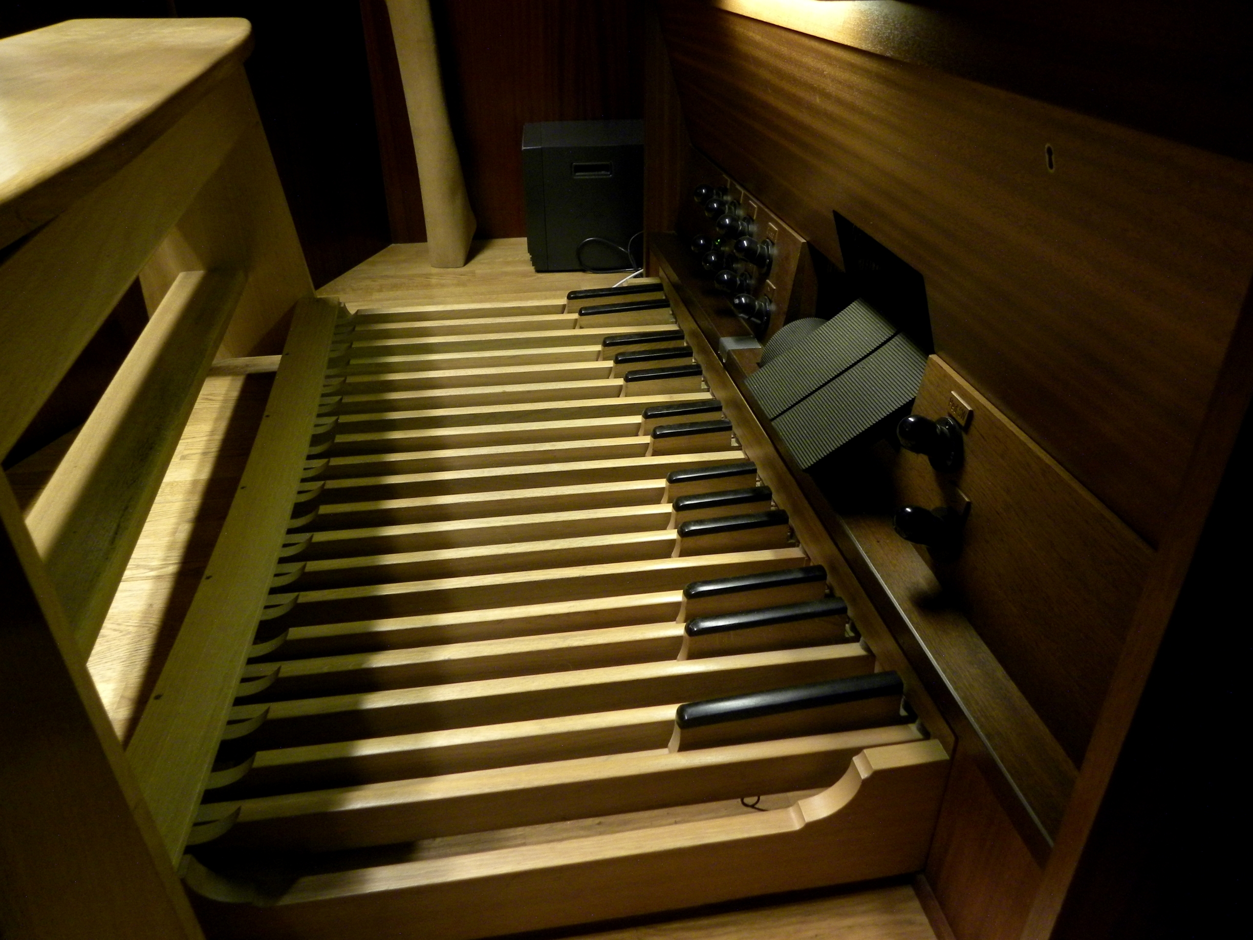 Organ pedals